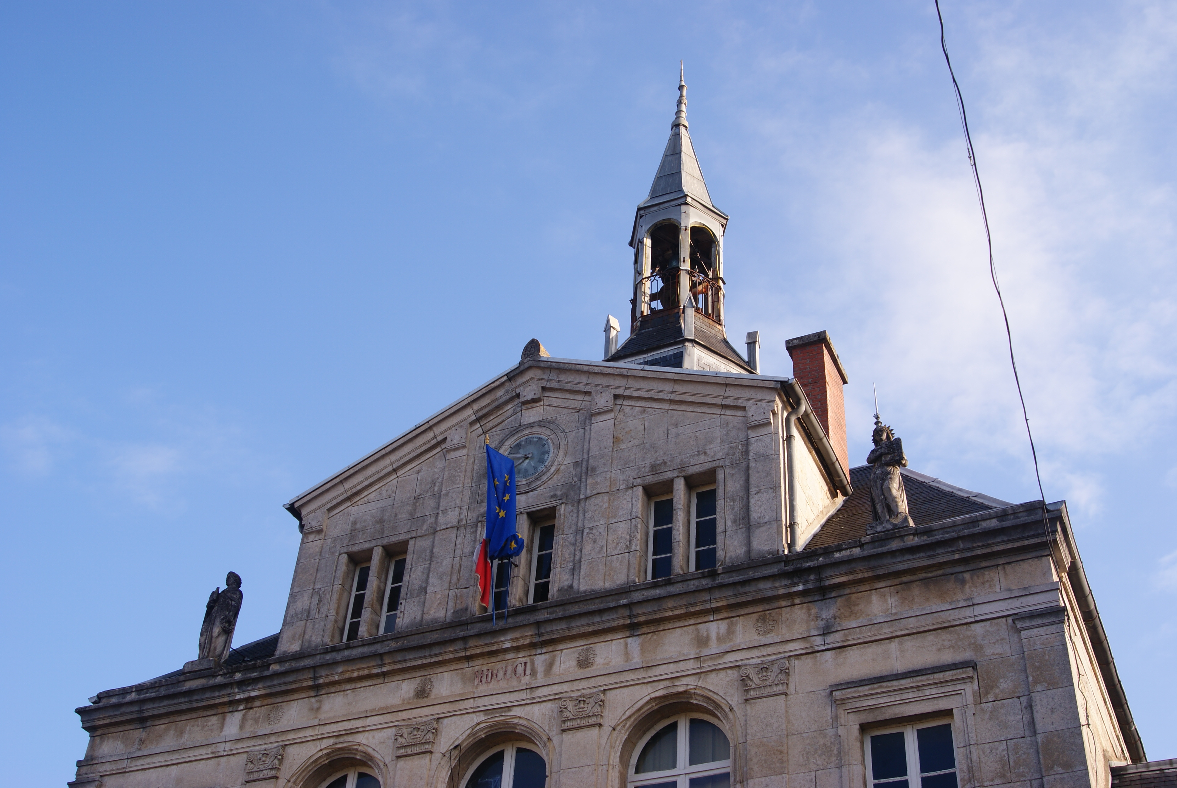 Town hall of Recey-sur-Ource